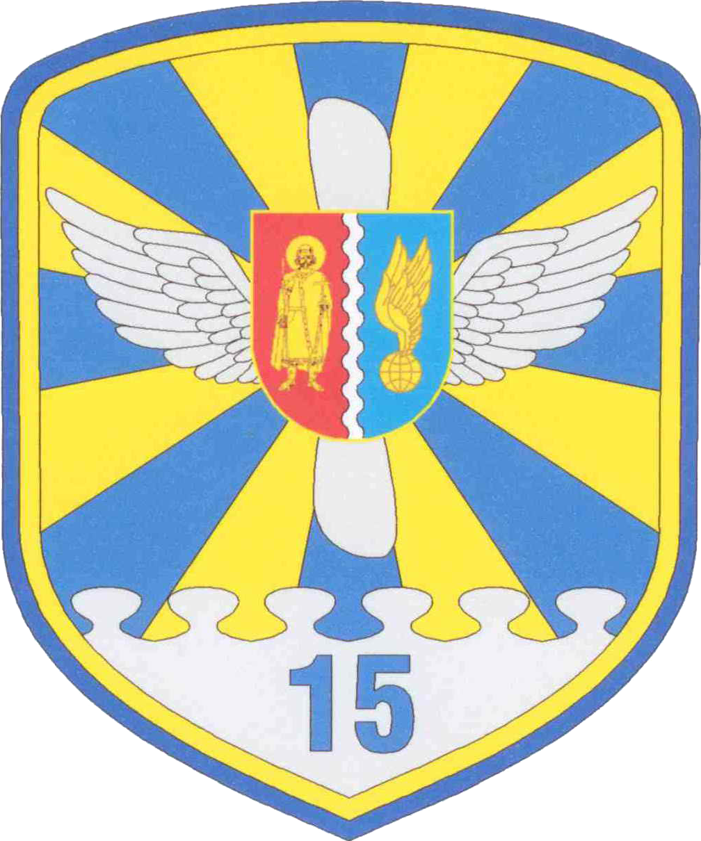 Shoulder sleeve insignia of the Ukrainian Air Force 15th Transport Aviation Brigade